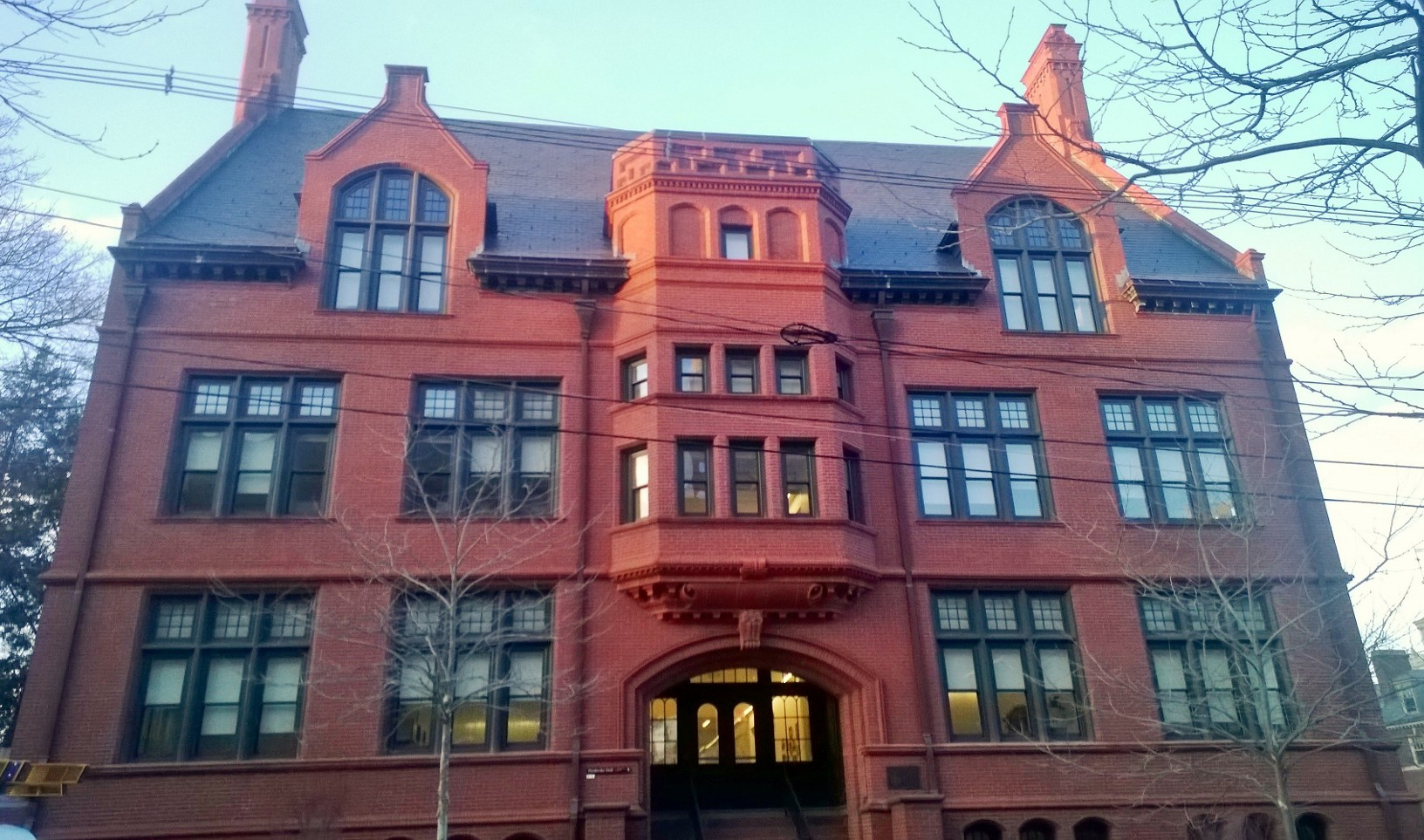 Pembroke Hall, built in 1897, is located on the Brown University campus. It currently houses the administrative offices of the Pembroke Center for Teaching and Research on Women and the Cogut Center for the Humanities.